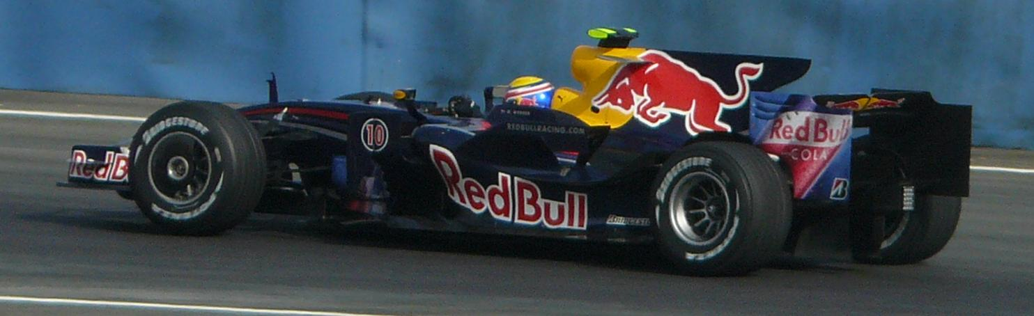 Mark Webber driving for Red Bull Racing at the 2008 European Grand Prix.